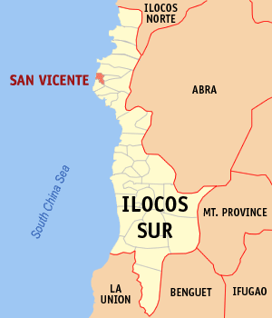 Map of Ilocos Sur showing the location of San Vicente